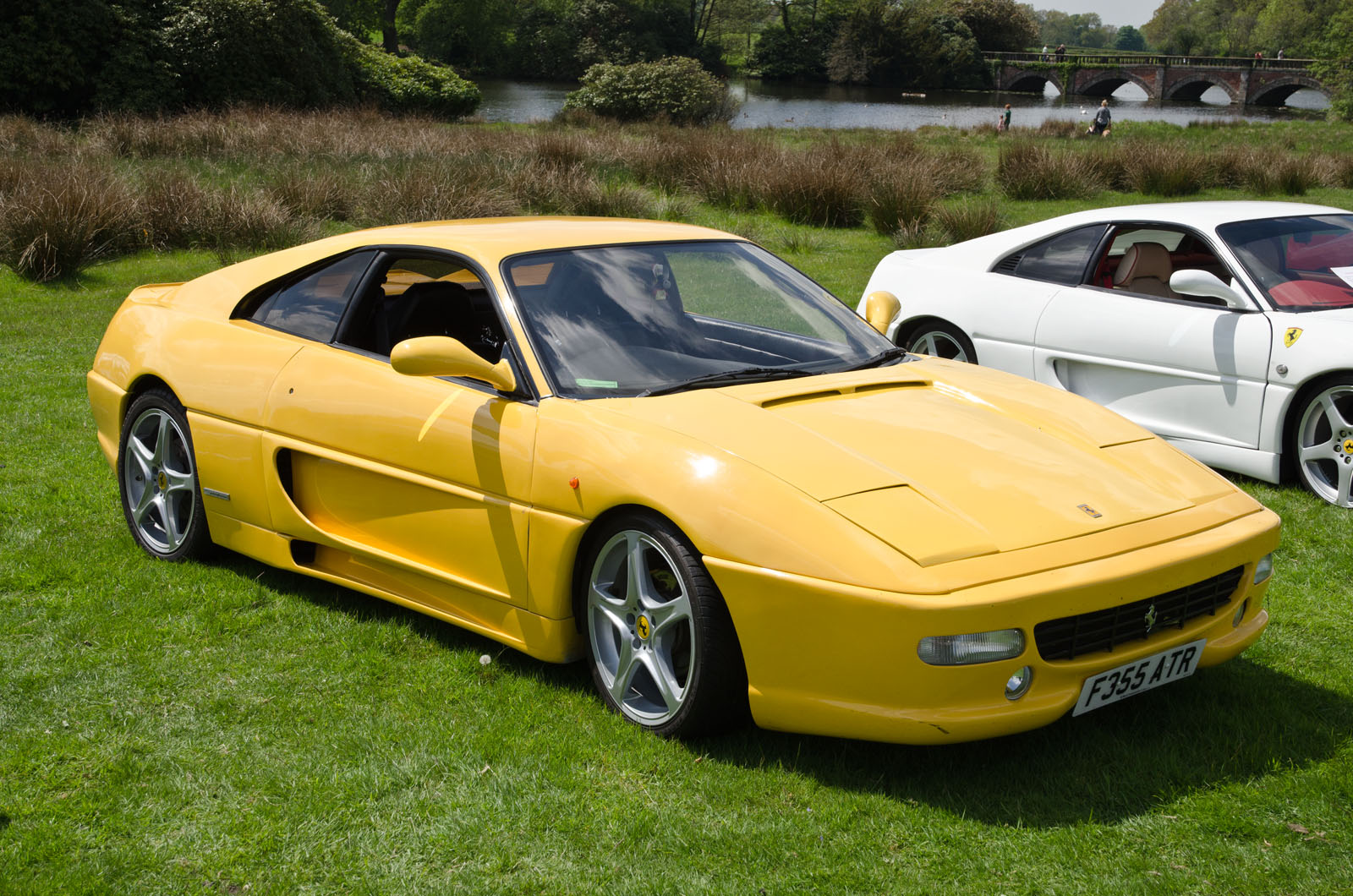 Capesthorne Hall Classic Car Show 26/05/2013